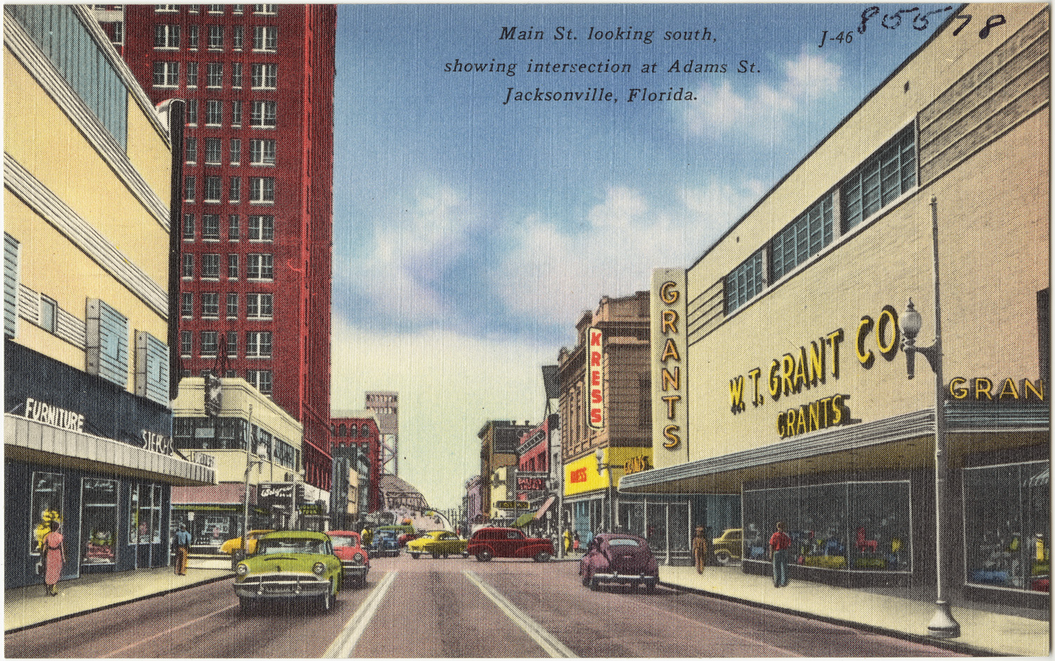 File name: 06_10_006832 Title: Main St., looking south, showing intersection at Adams St. Jacksonville, Florida Date issued: 1930 - 1945 (approximate) Physical description: 1 print (postcard) : linen texture, color ; 3 1/2 x 5 1/2 in. Genre: Postcards Subject: Cities & towns Notes: Title from item. Collection: The Tichnor Brothers Collection Location: Boston Public Library, Print Department Rights: No known restrictions